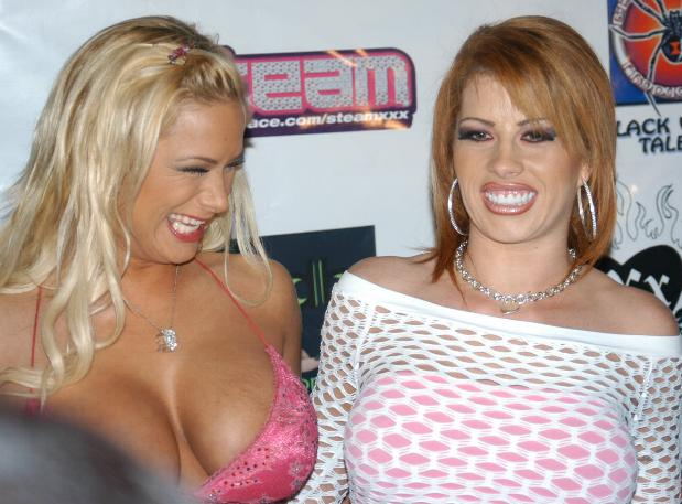 Shyla Stylez, Brooke Haven at Forbidden City party on March 31, 2007